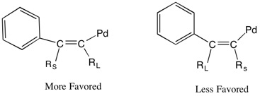 The mechanism shows that Larock Indole Synthesis is regioselective and favors the larger R group to bind the Palladium.